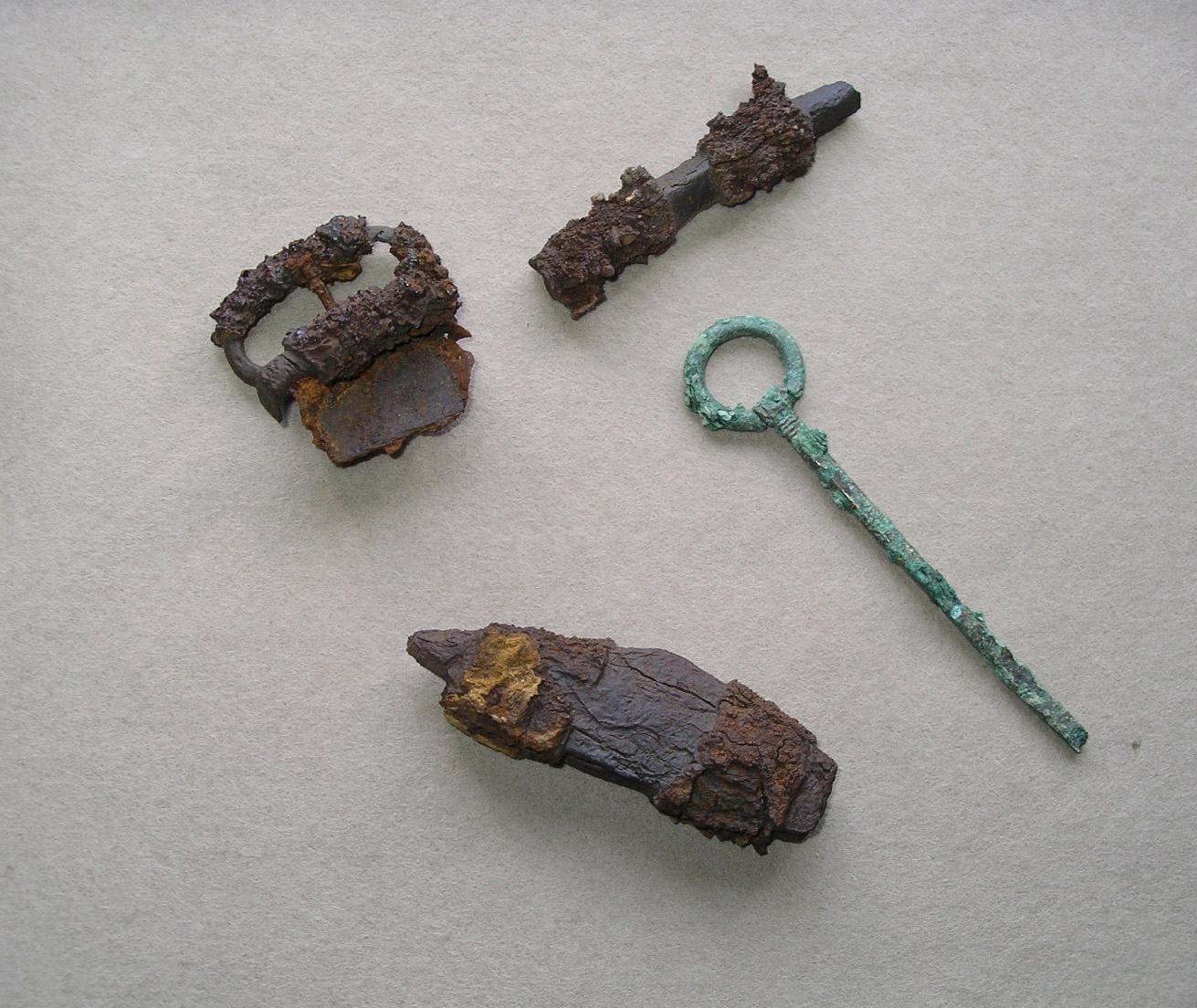 Viking relics found at Aspatria in 1997